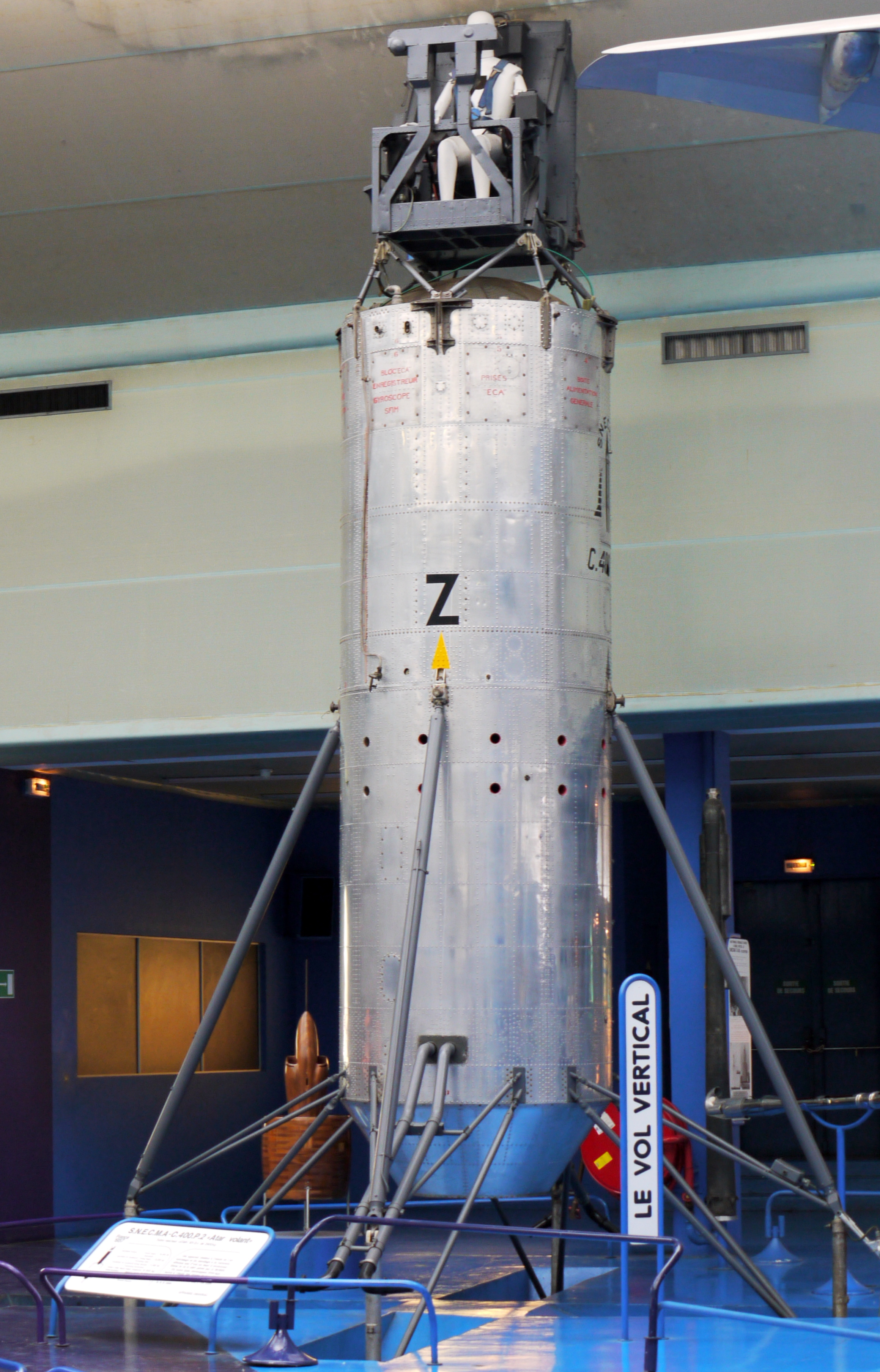 French experimental aircraft Atar Volant, VTOL (1956), Museum of Air and Space Paris, Le Bourget (France)